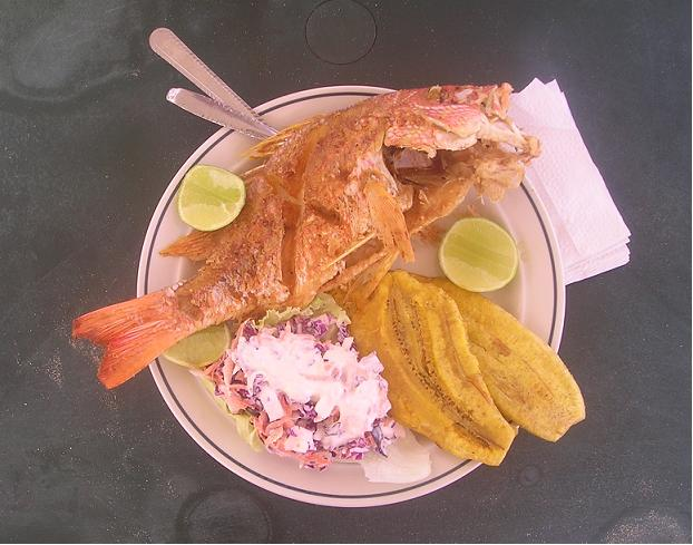 Typical food on the Carabobo coast